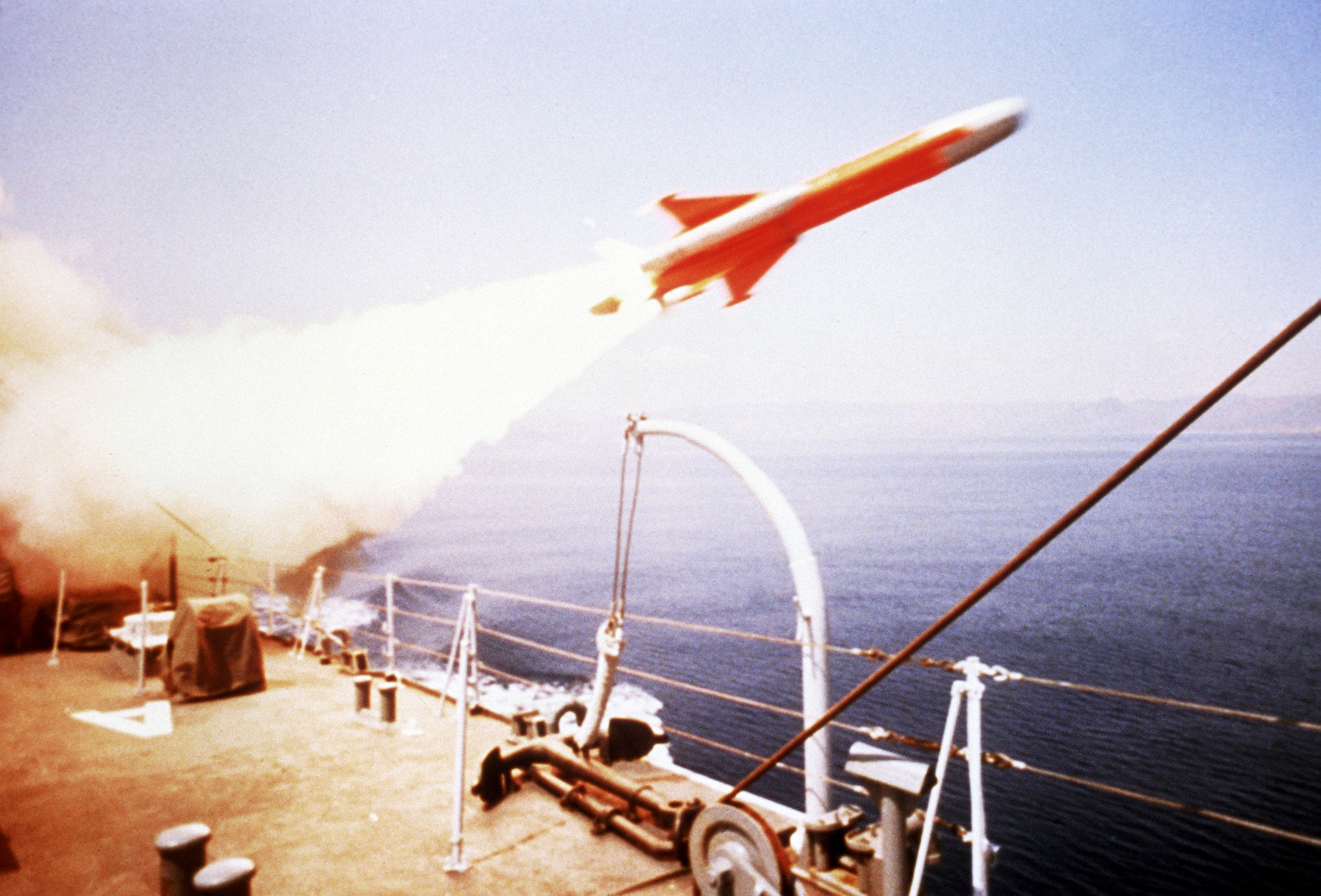 An Otomat anti-ship missile is fired from a ship-mounted launcher. This type of missile is used aboard the Libyan Assad class missile corvettes.